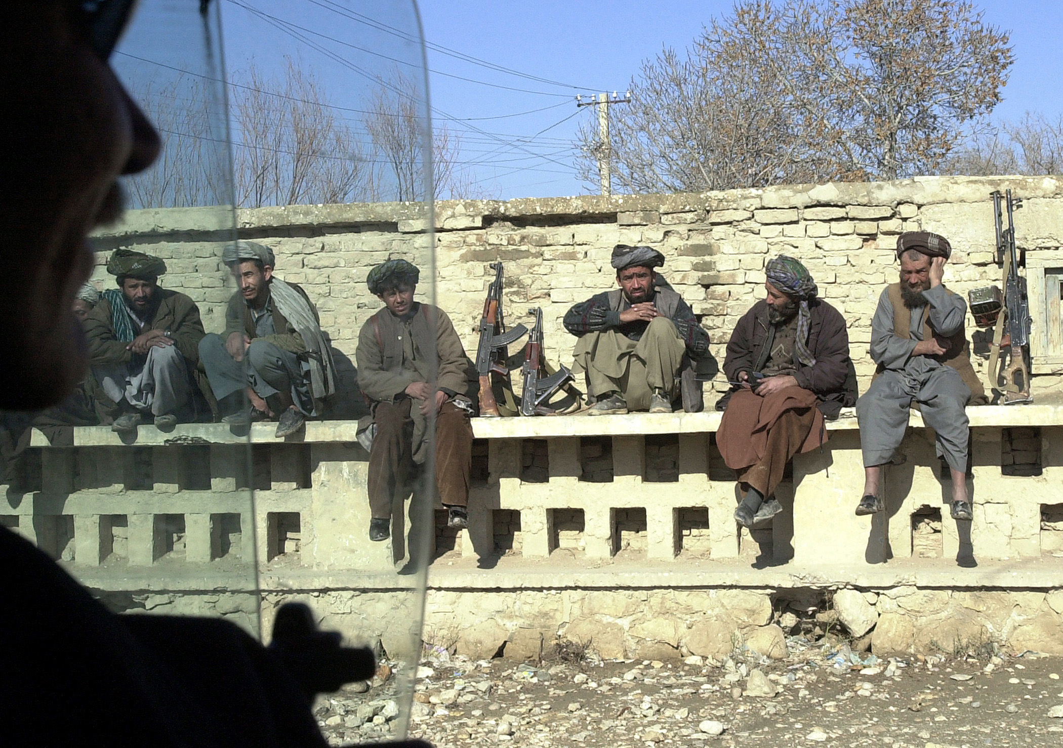 Northern Alliance troops under General Dostum's command in Mazar-e Sharif take a break on a wall in the median of the town's busiest street.